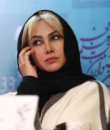 Ana Nemati